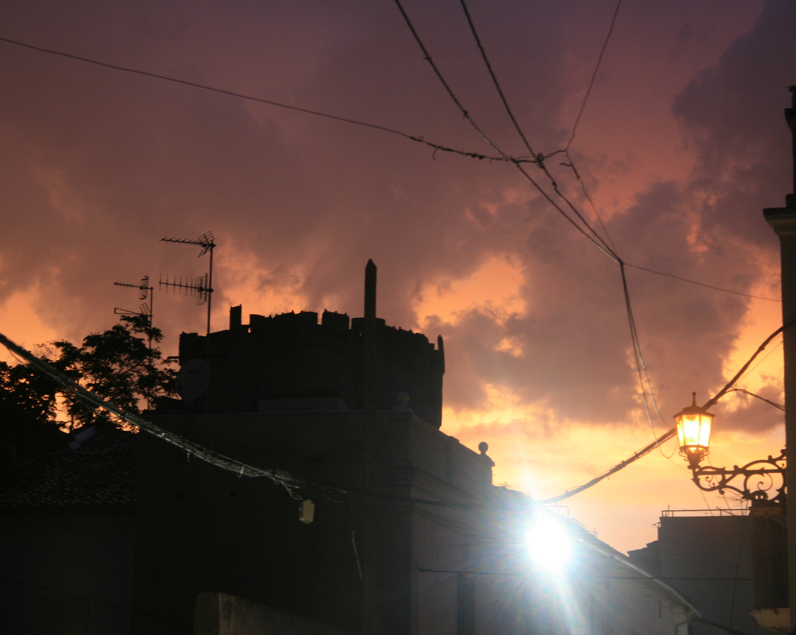 Coria sunset after rain. Sun is setting behind black silhouette of castle; and it lights heavy dark clouds from below